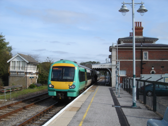 Brighton-bound Class 171 train at Rye railway station. Photographed on en:30 September en:2007.